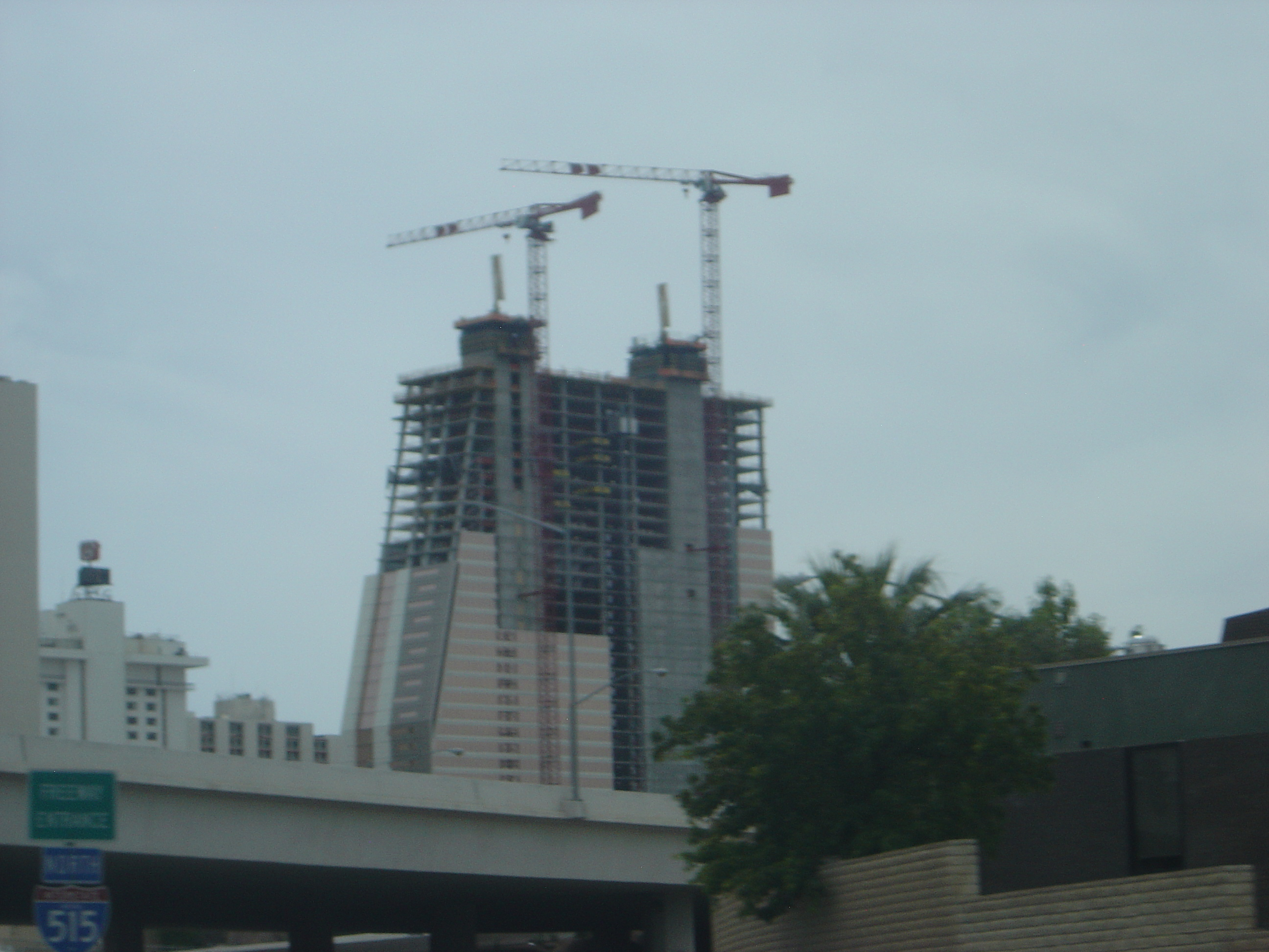 The Circa resort, under construction in downtown Las Vegas.